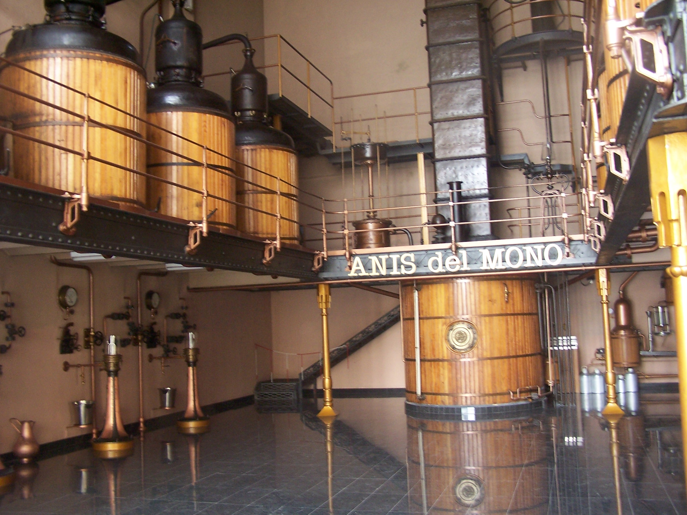 Anis del Mono Factory in Badalona, Catalonia